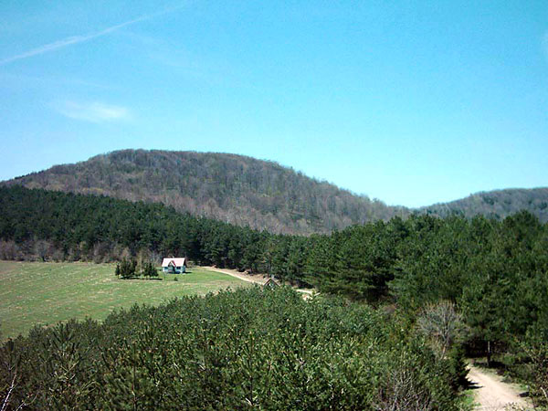 monts in serbia